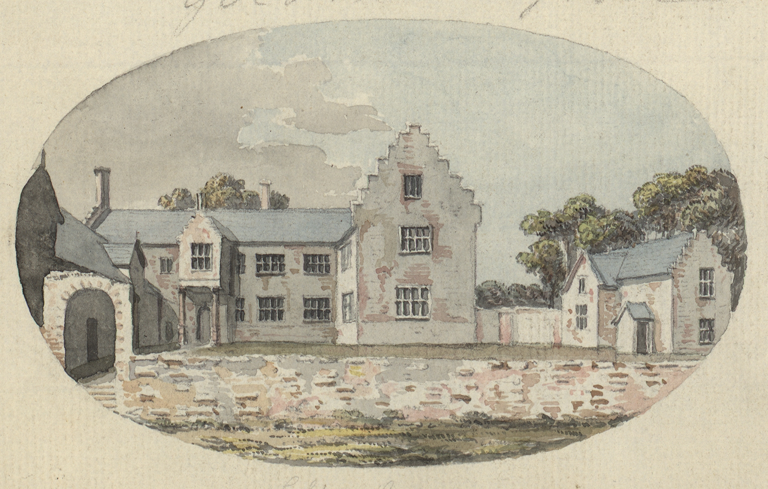 An image from a set of 8 extra-illustrated volumes of A tour in Wales by Thomas Pennant (1726-1798) that chronicle the three journeys he made through Wales between 1773 and 1776. These volumes are unique because they were compiled for Pennant's own library at Downing. This edition was produced in 1781. The volumes include a number of original drawings by Moses Griffiths, Ingleby and other well known artists of the period. Thomas Pennant (1726-1798)